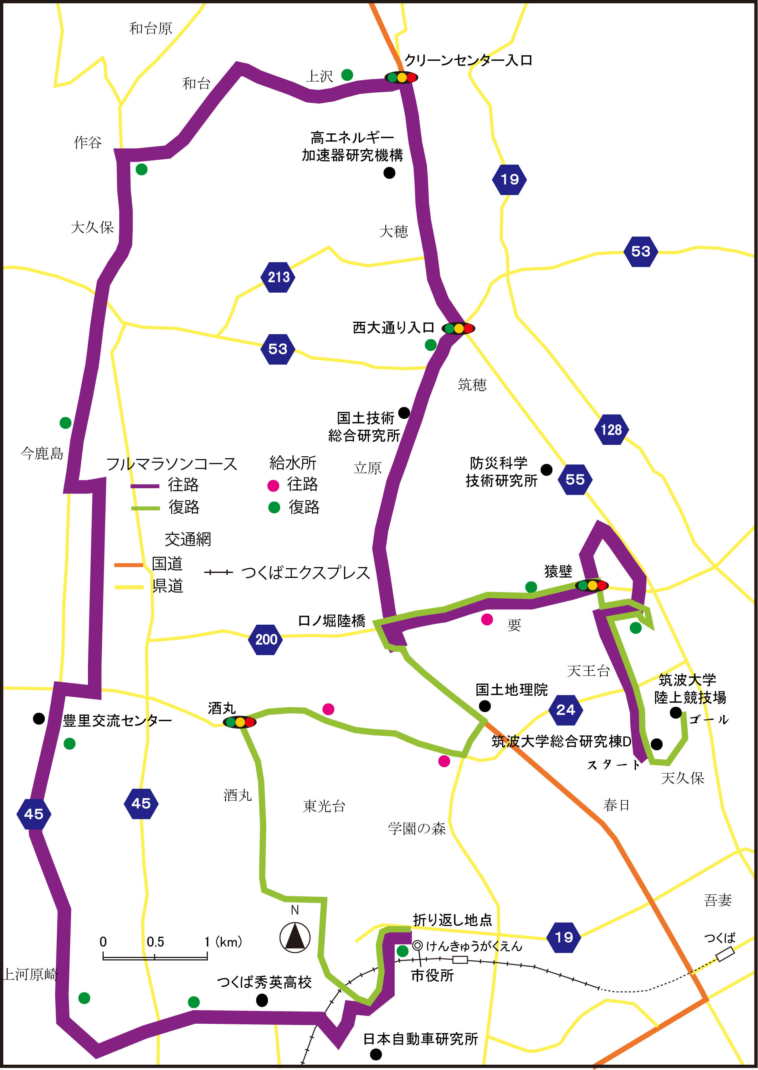 This is 2015 Tsukuba marathon course map.